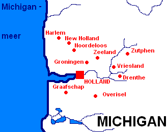 A map with Dutch place names in the state Michigan, USA